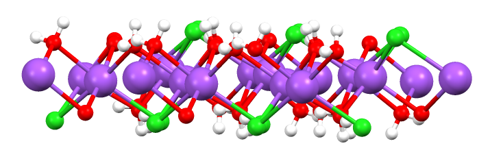 View of one slab of NaCl(H2O)2 according to doi 10.1107/S0567740874007138.